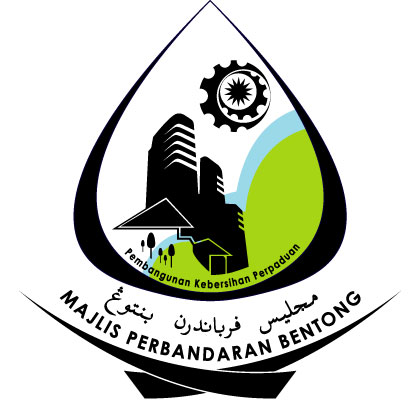 Emblem